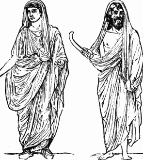 Costumes